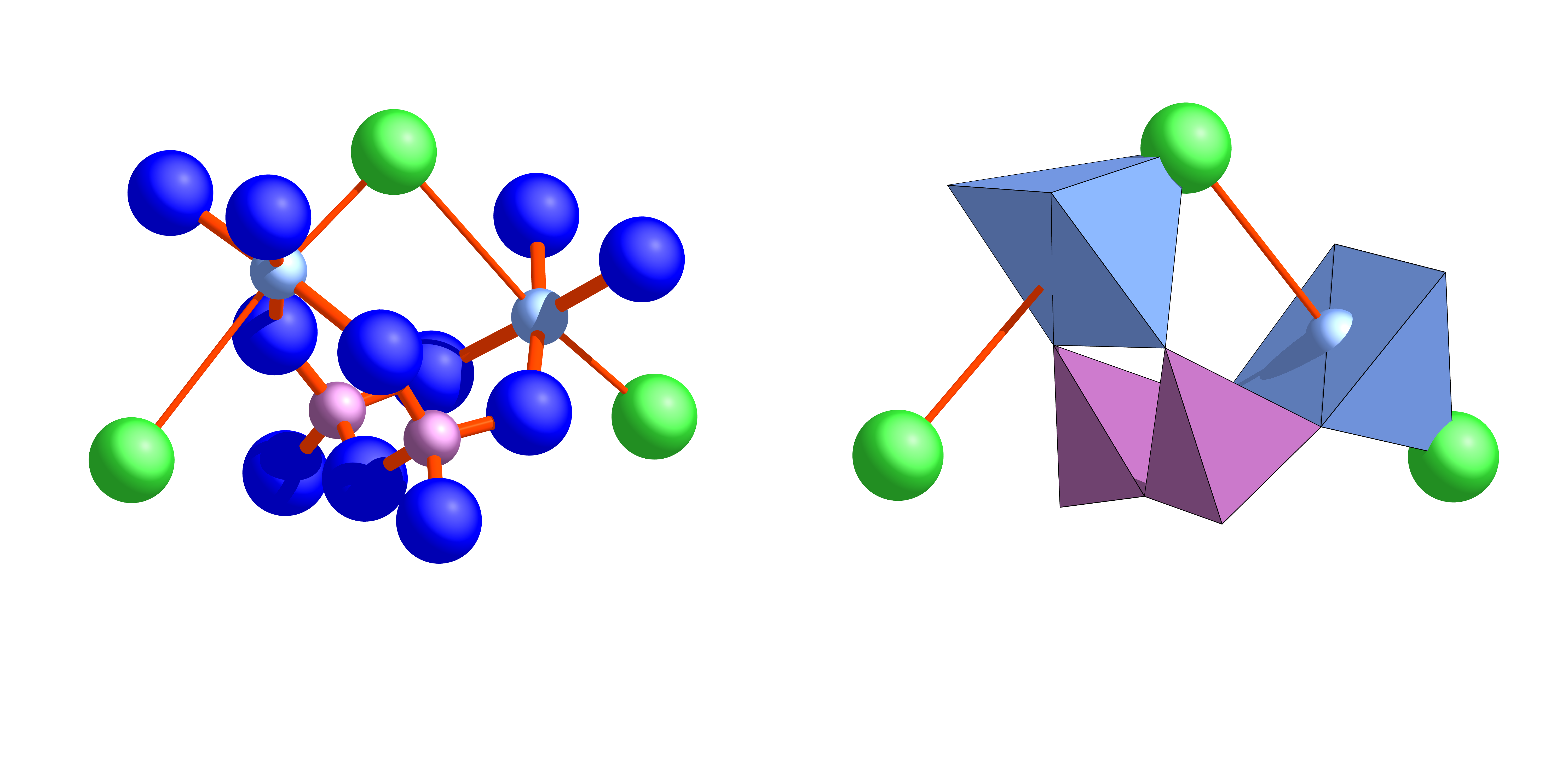 Cu- bipyramid, connected by water molecules at their tops and biphospate groups at the corners of the pyramid basis. Left atoms: Oxygen (blue), water (green), phosphorus (violet) and coper (turquoise) Right coordination polyhedra: Copper- pyramid (turquoise) and phosphate tetrahedra (violet) Data from: Mark A. Cooper, Frank C. Hawthorne (1999): The crystal structure of wooldridgeite, Na2CaCu2+2(P2O7)2(H2O)10, a novel copper pyrophosphate mineral, The Canadian Mineralogist 37, pp. 73–81 Calculation of image data: Larry W. Finger, Martin Kroeker, and Brian H. Toby, DRAWxtl, an open-source computer program to produce crystal-structure drawings, J. Applied Crystallography V40, pp. 188-192, 2007 Rendering: POVRAY